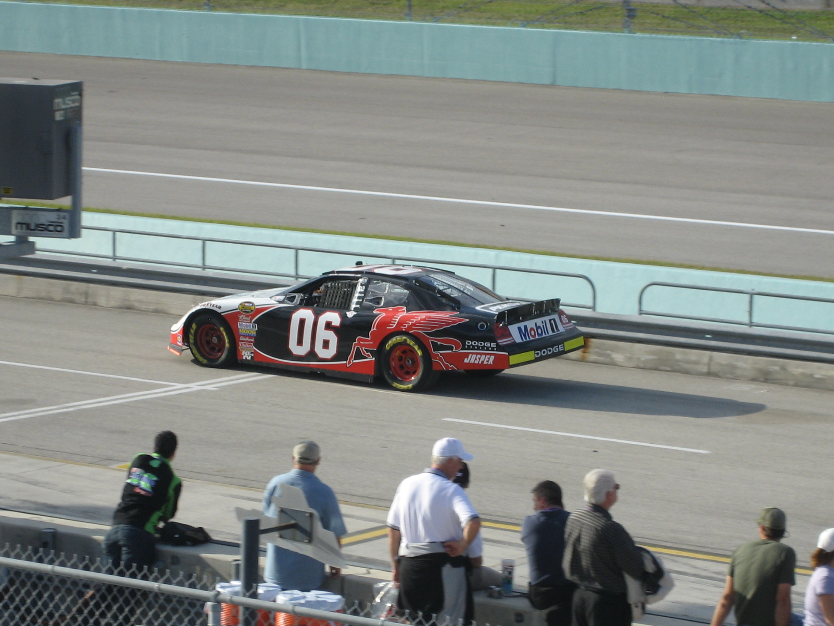 Sam Hornish Jr. practicing for the 2007 Ford 400 at the Homestead-Miami Speedway.